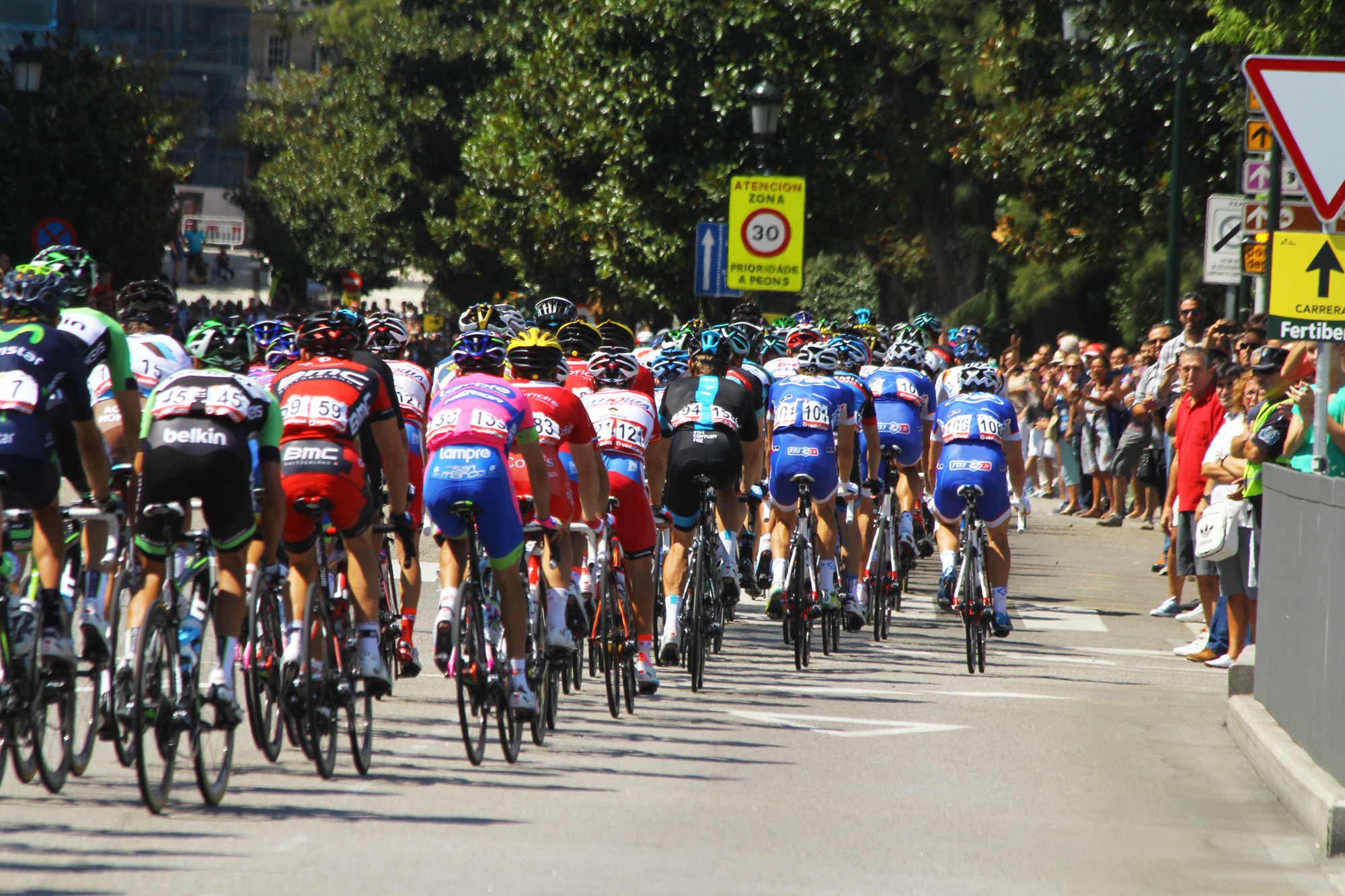 Vigo / Cyclist Tour to Spain 2013